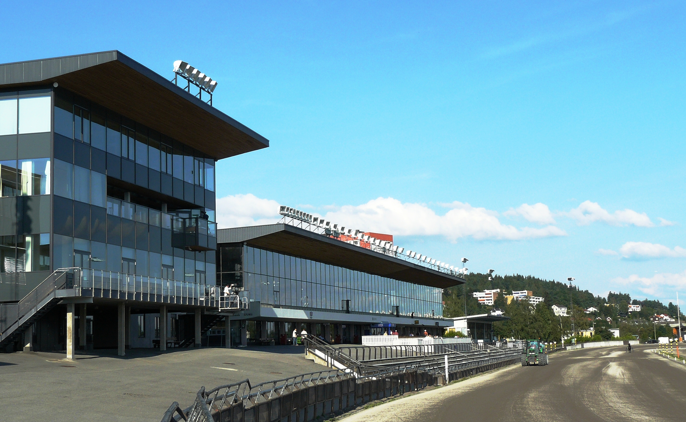 Bjerke Travbane / trot racing arena in Oslo, the main arena building with the track